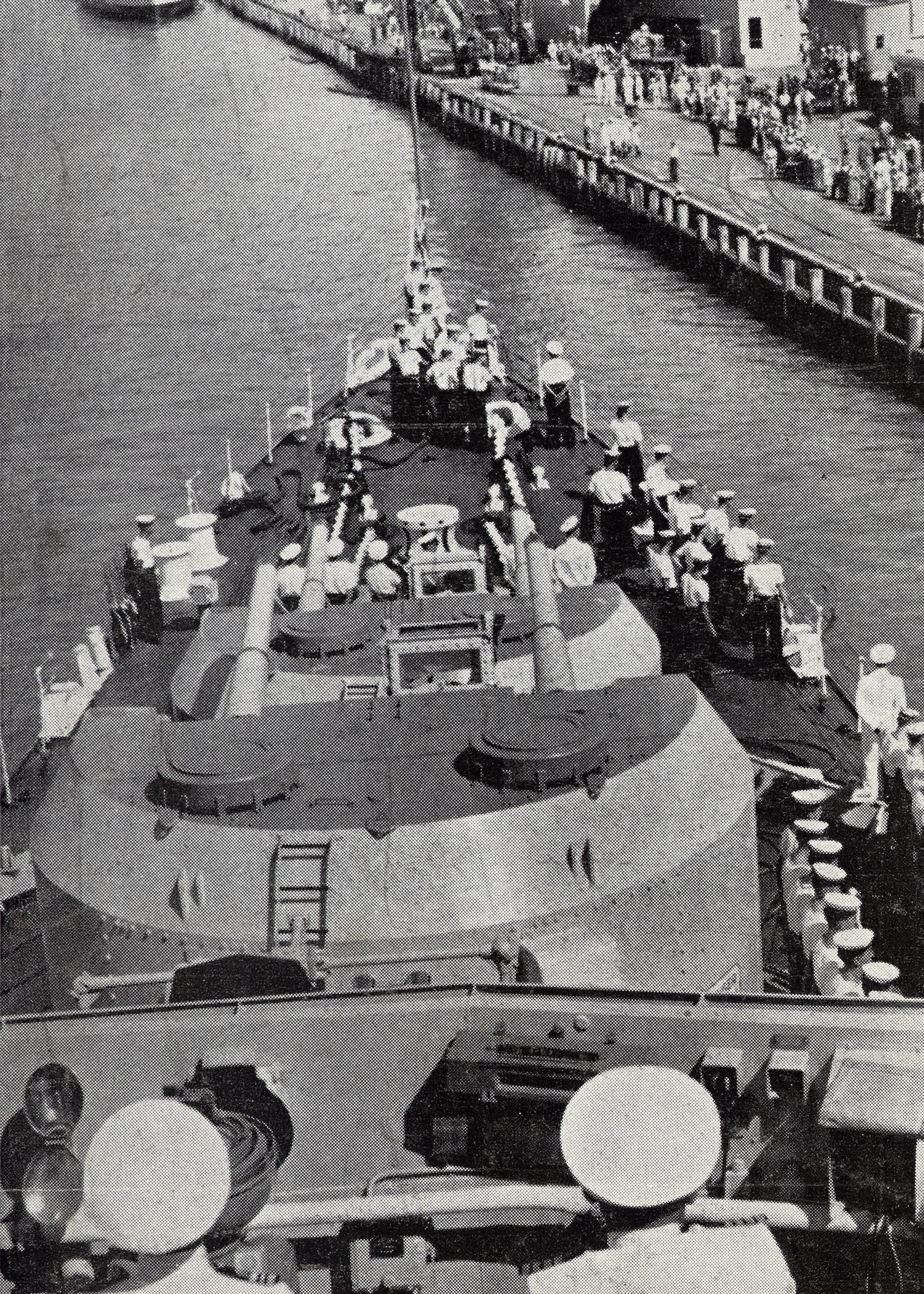 A view from the bridge of HMNZS Royalist, as the cruiser moves into her berth at Devonport Naval Base, New Zealand. From a collection of photographs depicting the return of the HMNZS Royalist for Christmas, 1956, published in: "Royalist home for Christmas". The Weekly News (Auckland, New Zealand: Wilson and Horton): p. 30. 26 December 1956. OCLC 29121953. Photograph taken 1956 by an unidentified photographer. Original page physical description: Photolithograph on page, 435 x 310 mm. This version has been cropped, and has had brightness/contrast adjustments.